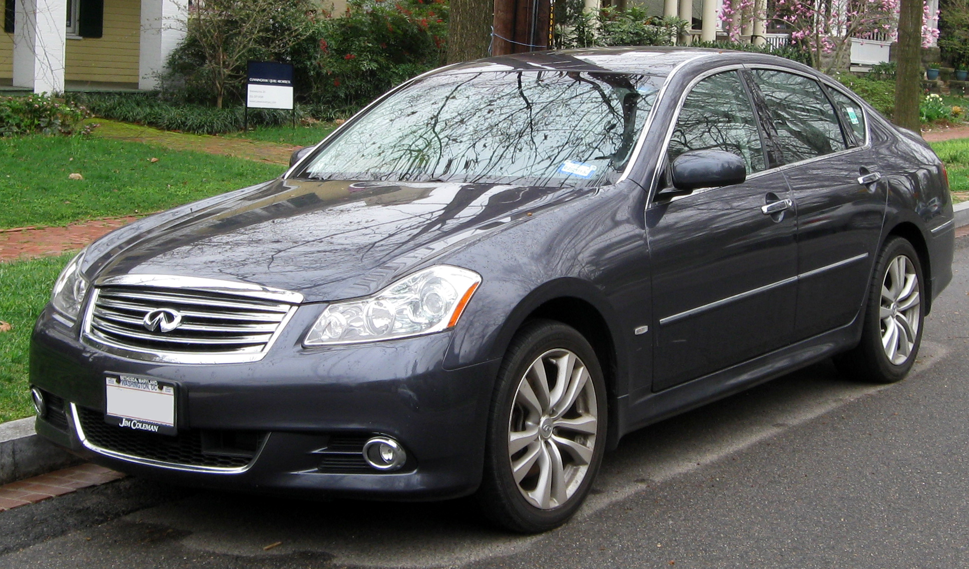 2008-2010 Infiniti M photographed in Washington, D.C., USA.